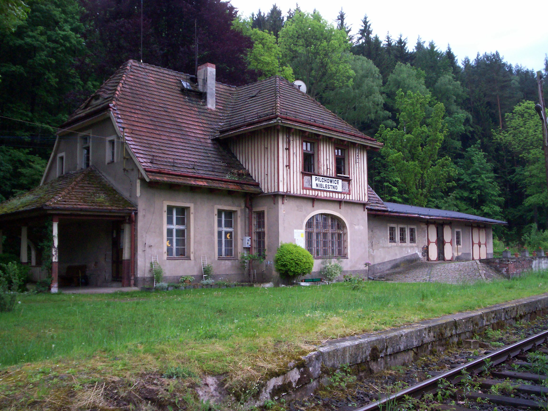 Train station in Nielestno.